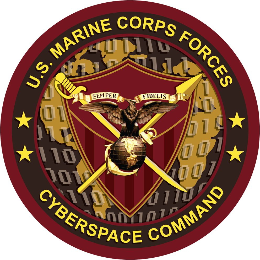 Seal of U.S. Marine Corps Forces Cyberspace Command